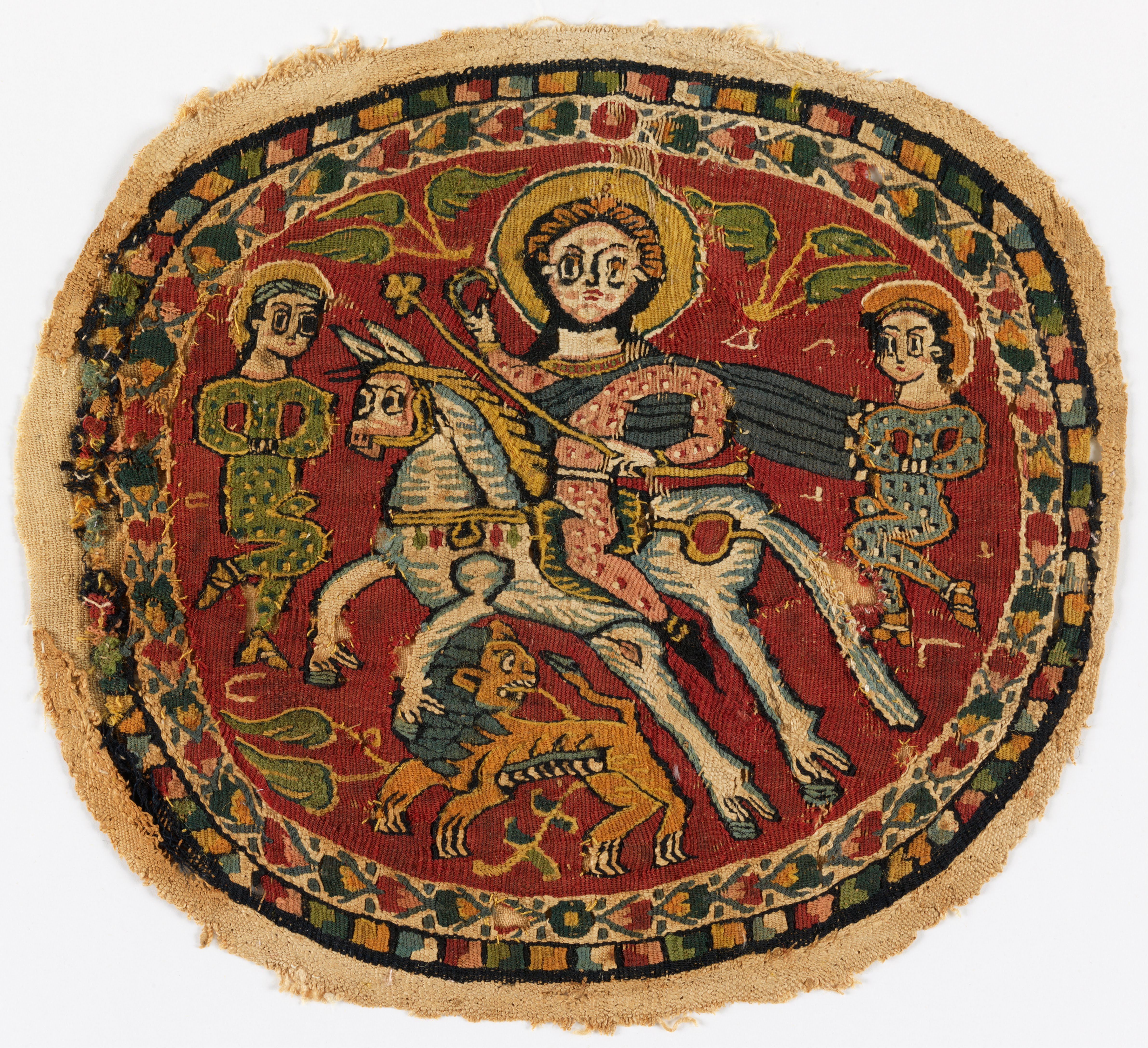 Medallion with polychrome figures on a red ground. In the center field, a haloed rider on a prancing horse carries a staff or scepter topped with a trefoil, and holds a ring. A lion below looks back over his shoulder. Two additional figures, one at each side, wear spotted green clothing. The rider is in pink with a flowing blue cape. Inner border of polychrome connected flower heads on a natural ground; outer border of polychrome step pattern on dark blue ground. The image is said to represent the emperor with two Persian prisoners, a reference to the victory of Heraclius (617 - 641) over the Persians in 627.